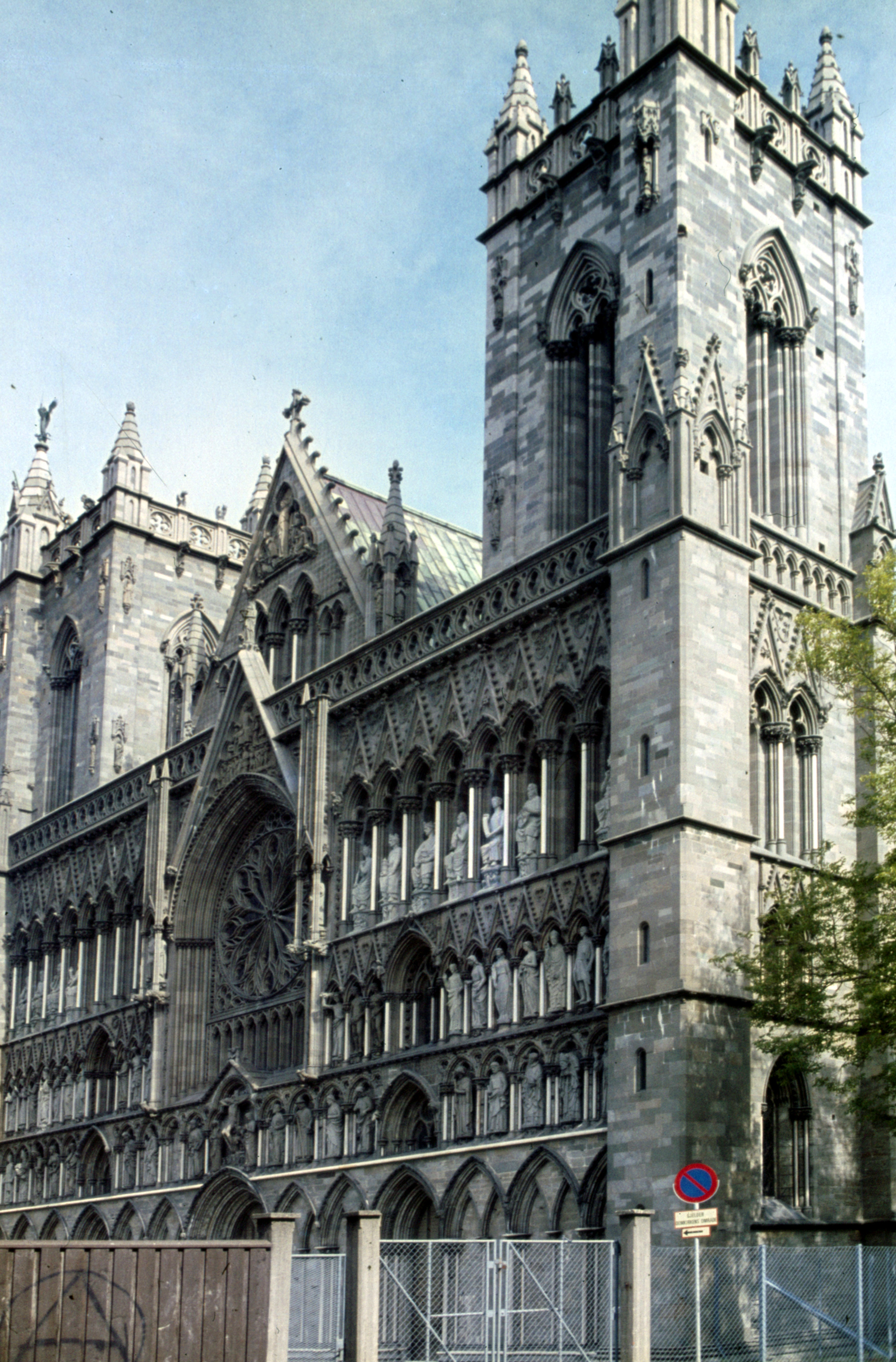 Nidaros Cathedral in Trondheim in Norway 1975